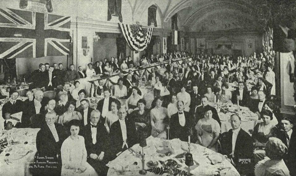 Fourteenth Annual Dinner. Society of American Magicians. Hotel McAlpin. May 31, 1918.